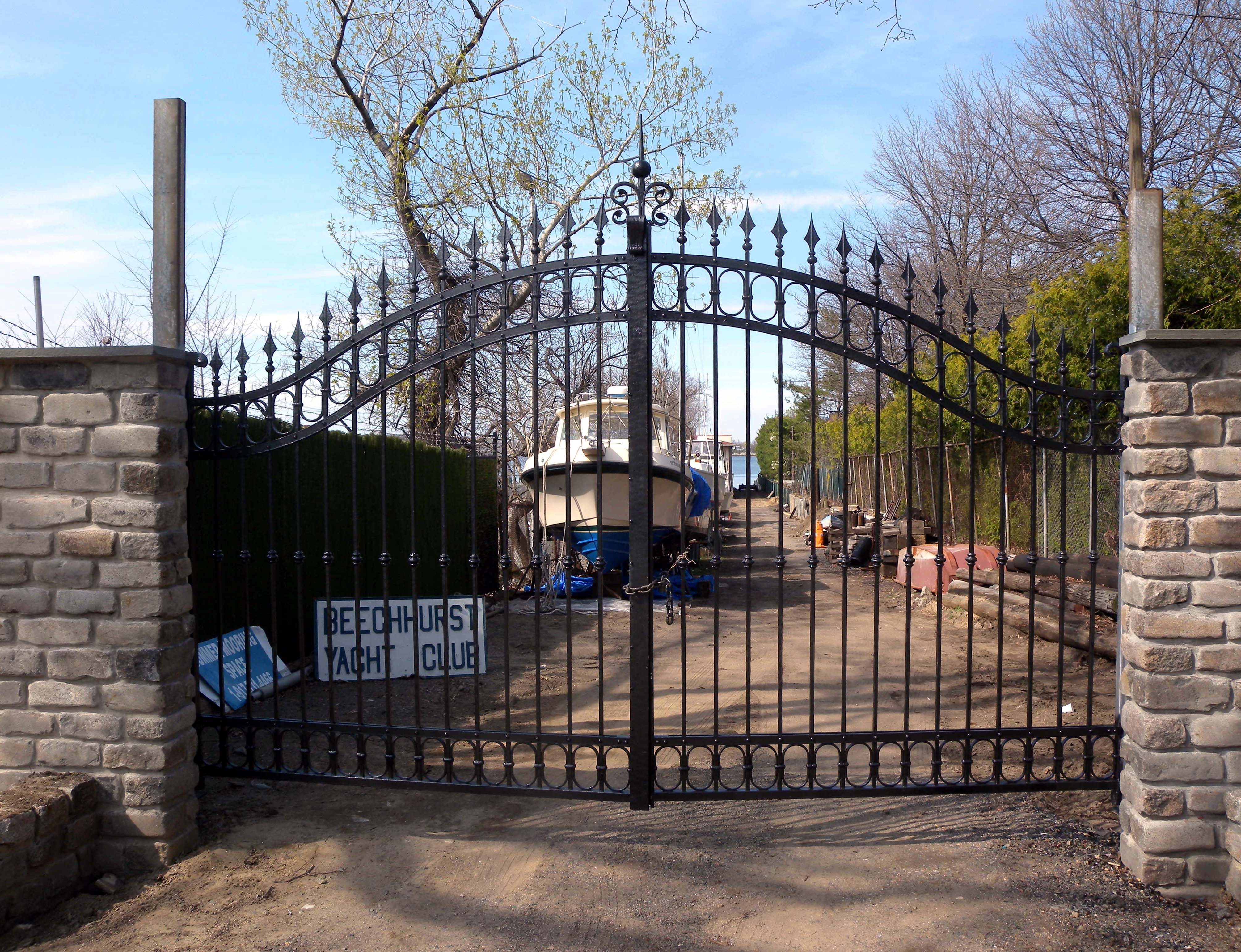 Looking north at former terminus of Whitestone Branch, now a yacht club, on a cloudy midday.